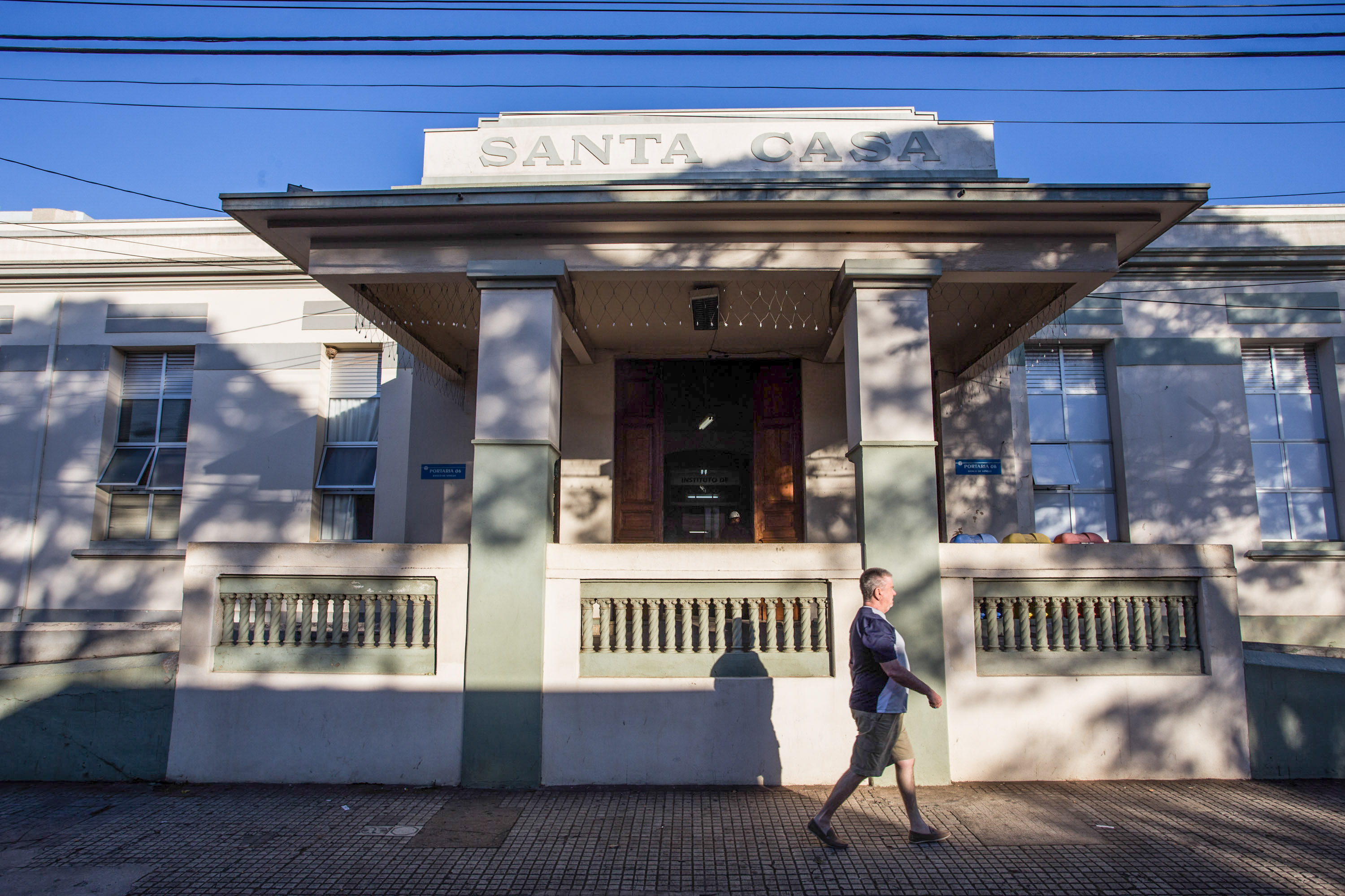 O governador Geraldo Alckmin anuncia repasse de verba para Santa Casa de são carlos e sua inclusão no programa SOS Santas Casas do Estado de São PauloData: 25/06/2014. Local: São Carlos/SP.Foto: Vagner Campos/A2 FOTOGRAFIA